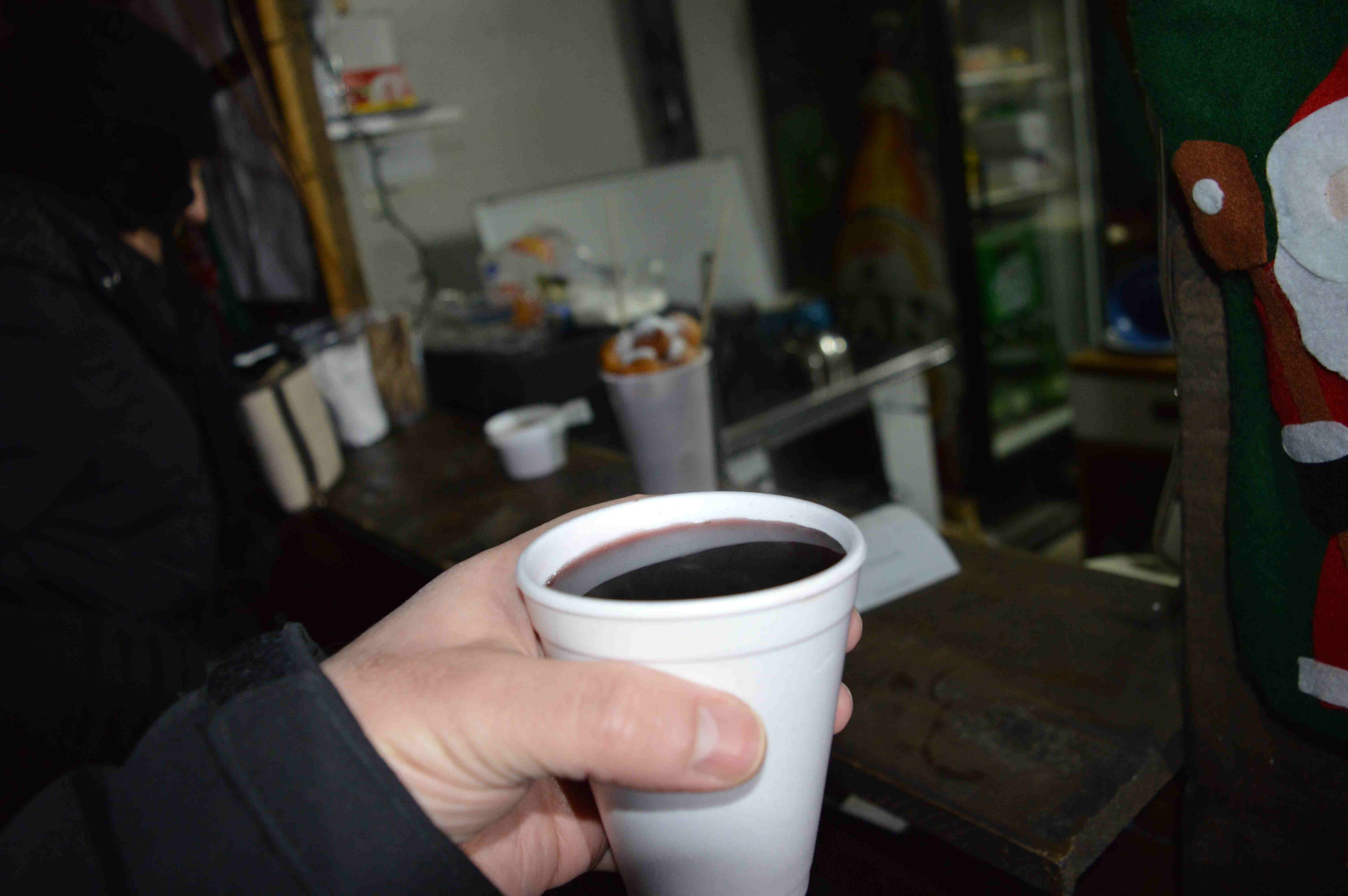 Kuhano Vino